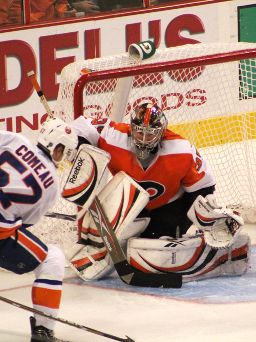 Philadelphia Flyers goaltender Sergei Bobrovsky a game against the New York Islanders on October 30, 2010.